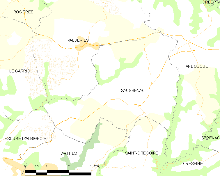 Map of French municipality Saussenac